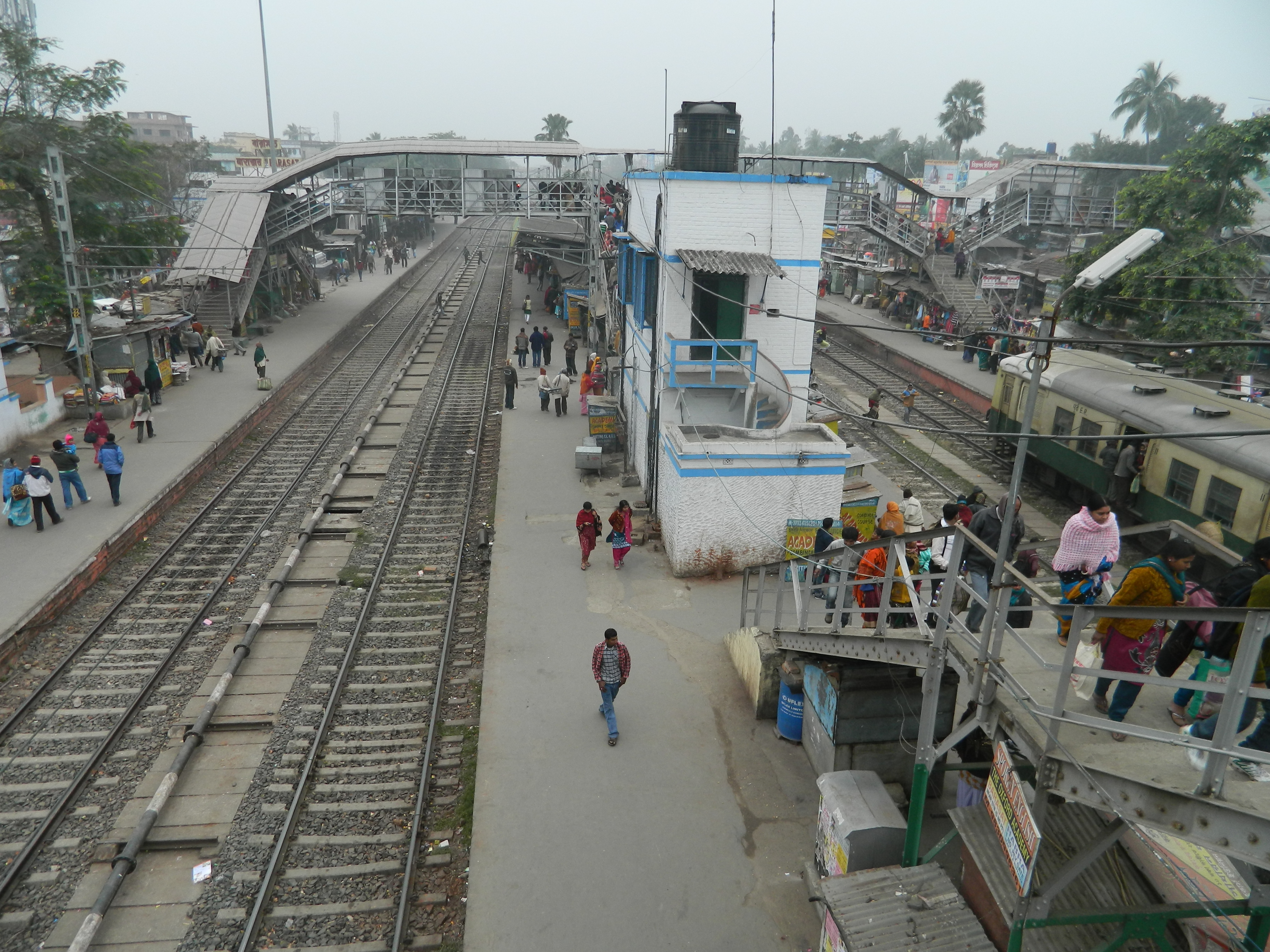 Barasat station, viewed from platform no. 2 towards Sealdah